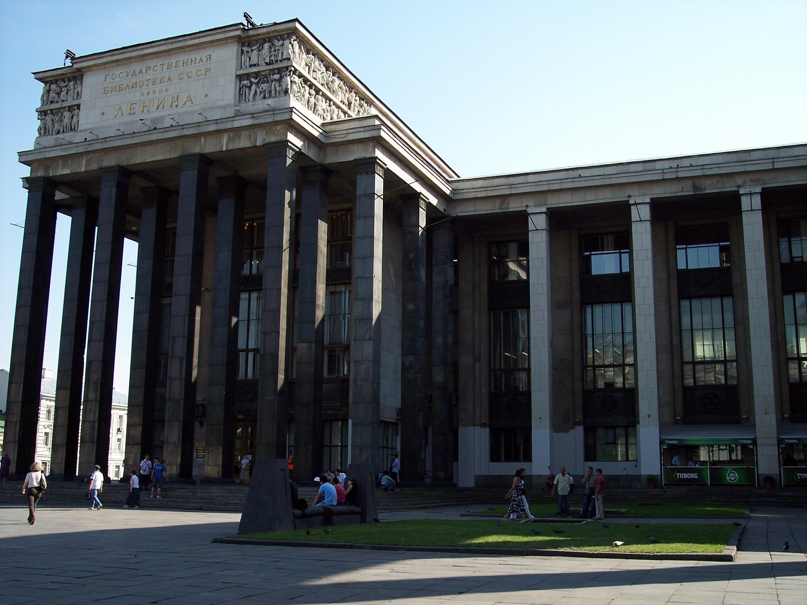 Russian State Library